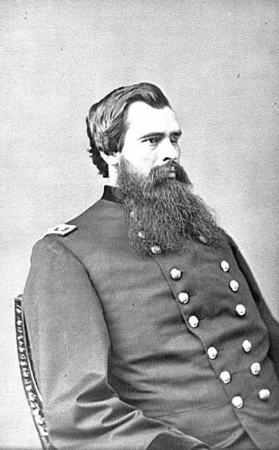 Title: Portrait of Maj. Gen. N. Martin Curtis, officer of the Federal Army Abstract: Selected Civil War photographs, 1861-1865 (Library of Congress) Physical description: 1 negative